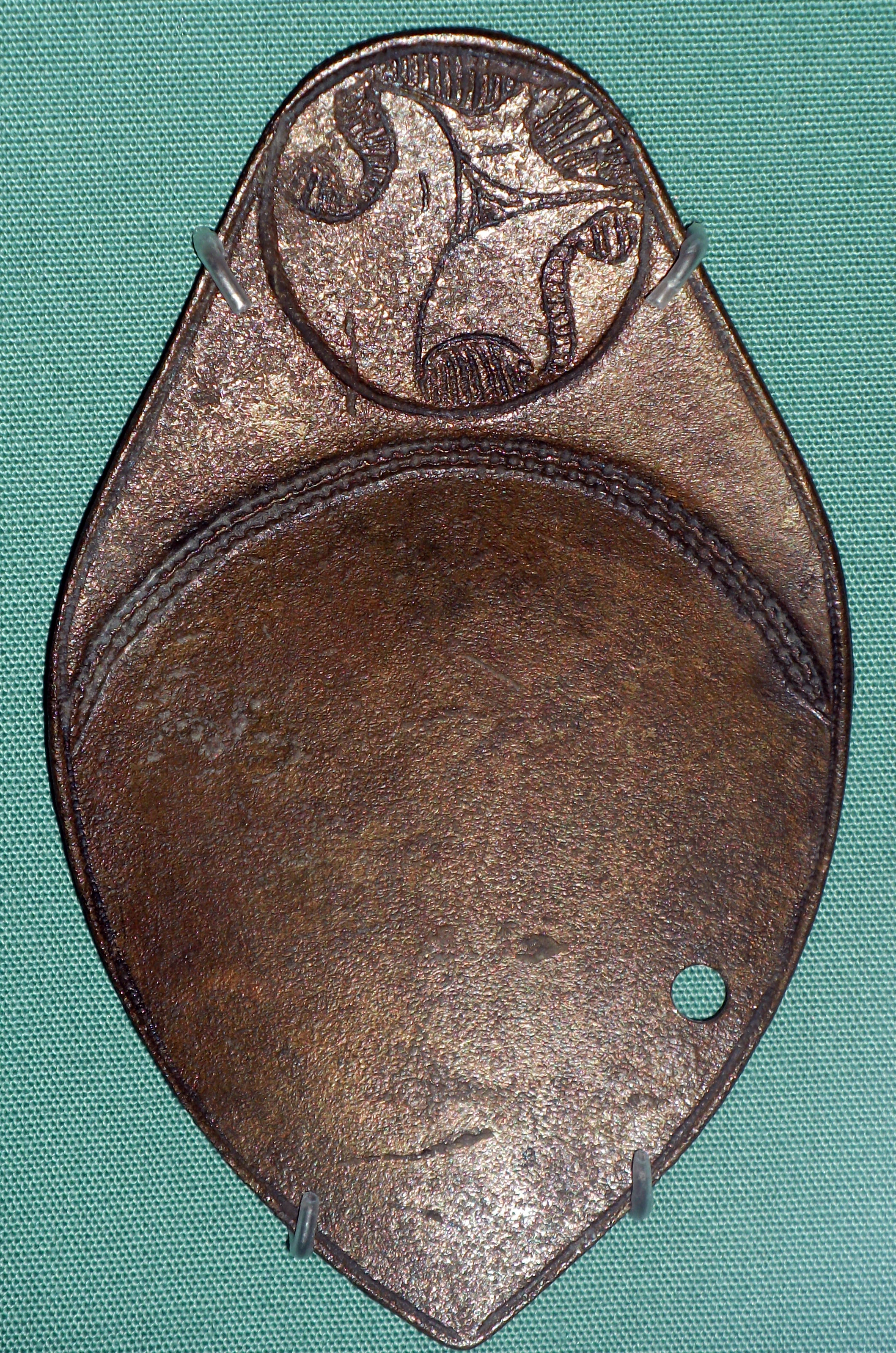 Room 50, British Museum Iron Age British "spoon", possibly for divination. Cast bronze, one of a pair BM highlights